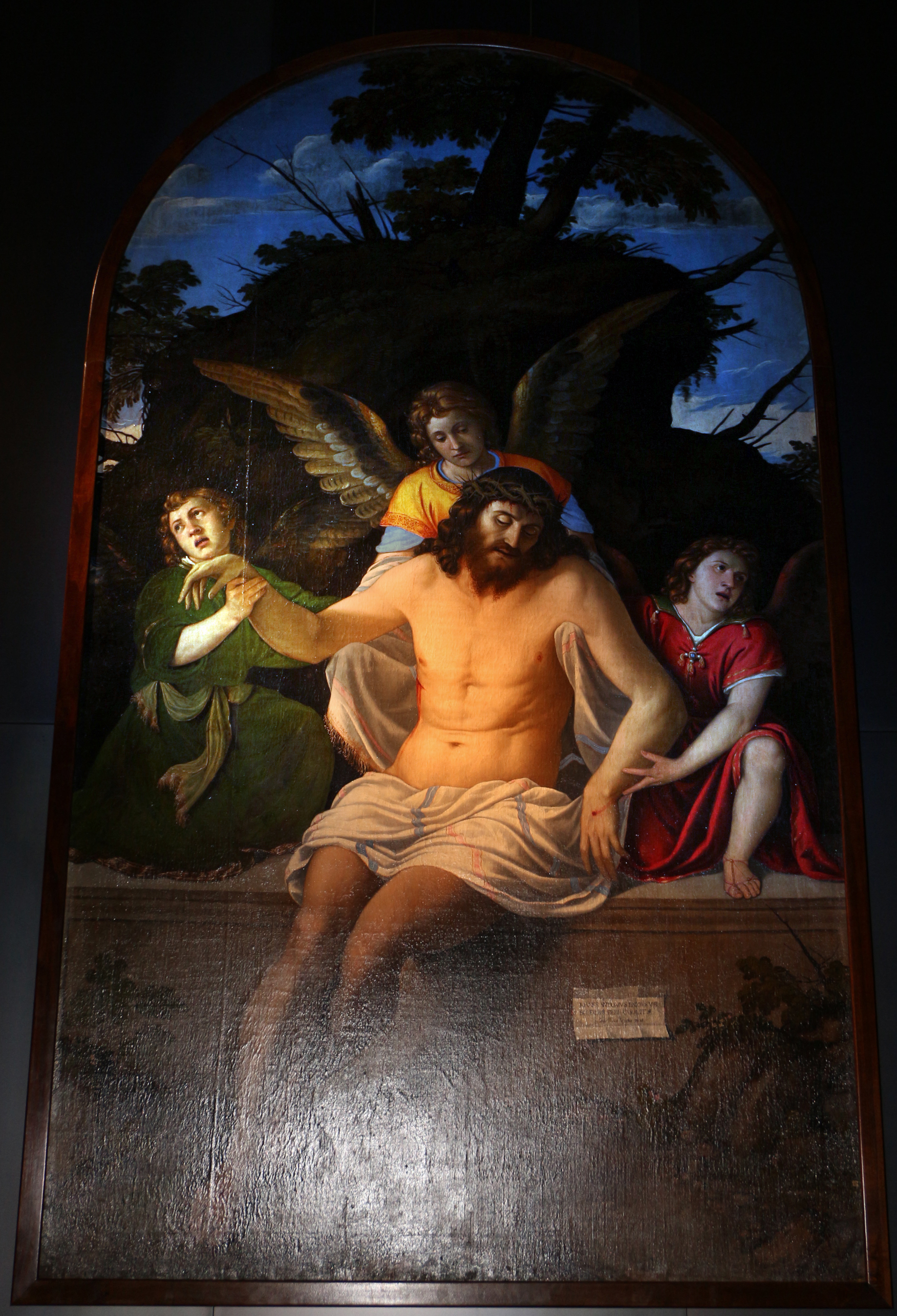 Museo Adriano Bernareggi